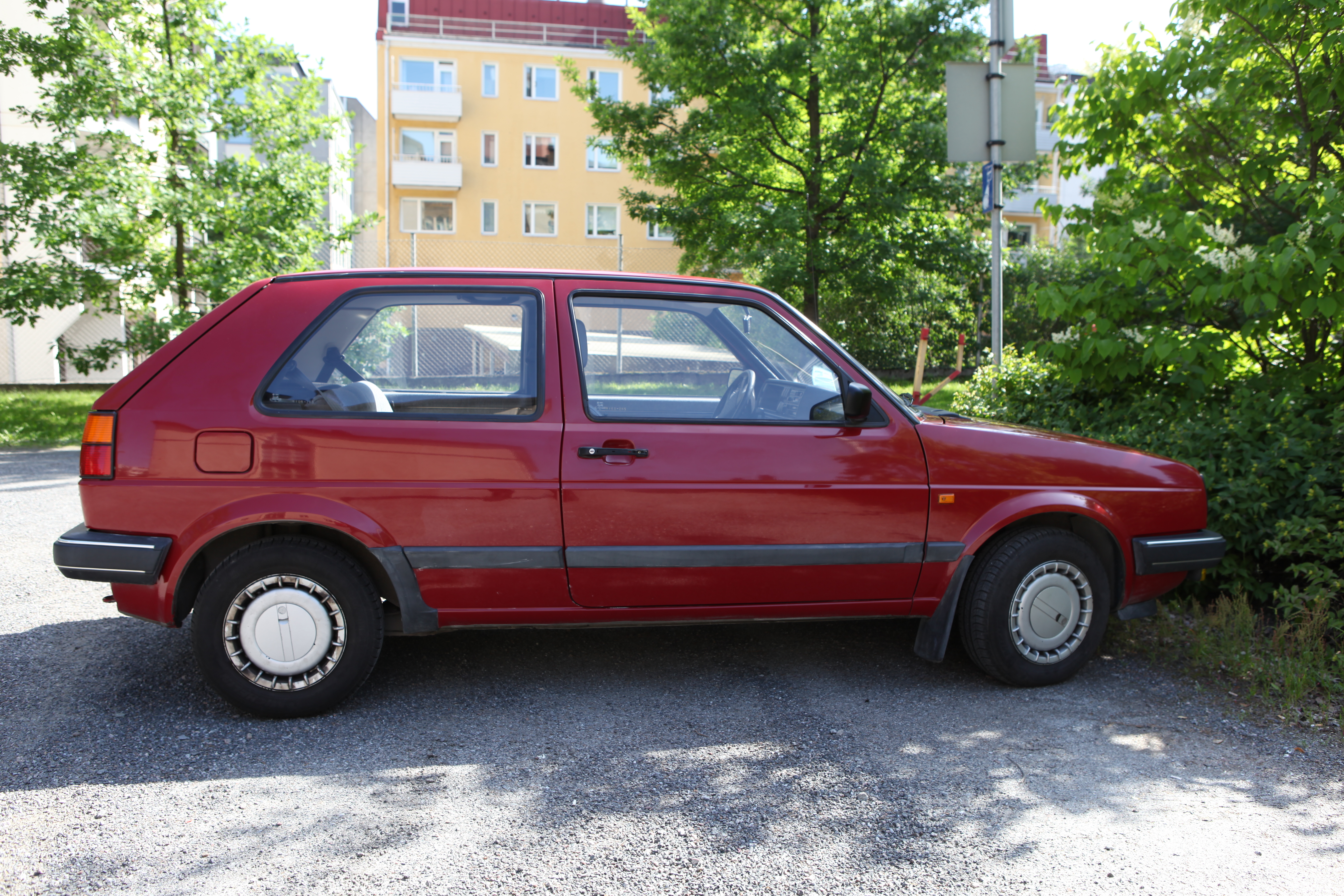 Volkswagen Golf mk II (1989). The car has 1.6 l engine with automatic transmission.